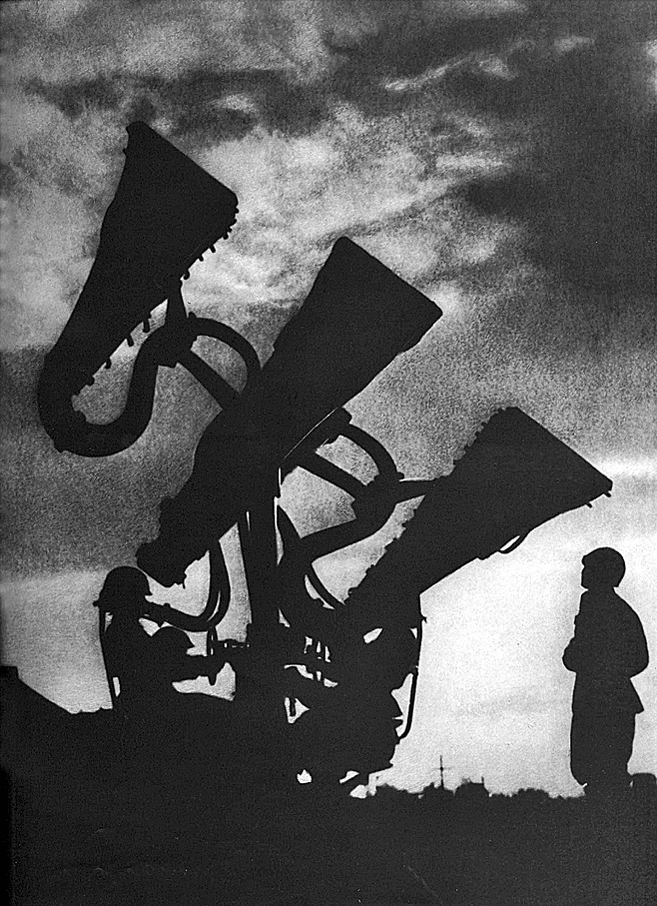 “Defending the Moscow sky”. Soviet soldiers manning an acoustic aircraft detector near Moscow, in 1941 during World War 2, to detect German bombers. Before radar was developed in World War 2, air defense forces used acoustic horn sound detectors like this one to listen for the sound of approaching enemy planes. The sound collected by the horns was conducted by rubber tubes to "stethoscope-like" earphones on the technician at left. Separate horns connected to each ear allowed the technician to judge the direction of the aircraft by stereophonic hearing. The 4 horns were used in pairs; the horizontal pair to determine direction and the vertical pair to determine elevation.